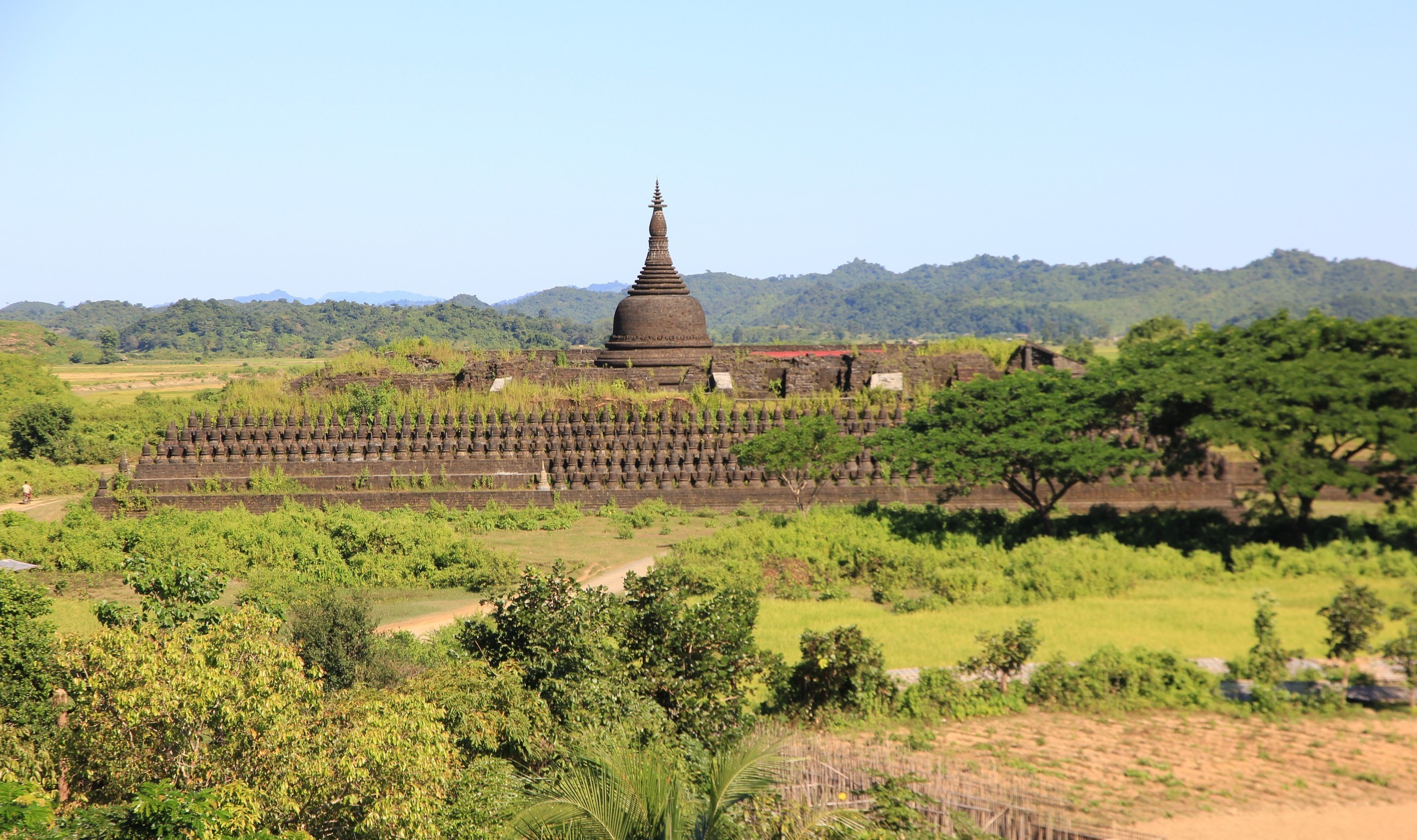 Mrauk U, Rakhine State, Myanmar (Burma)